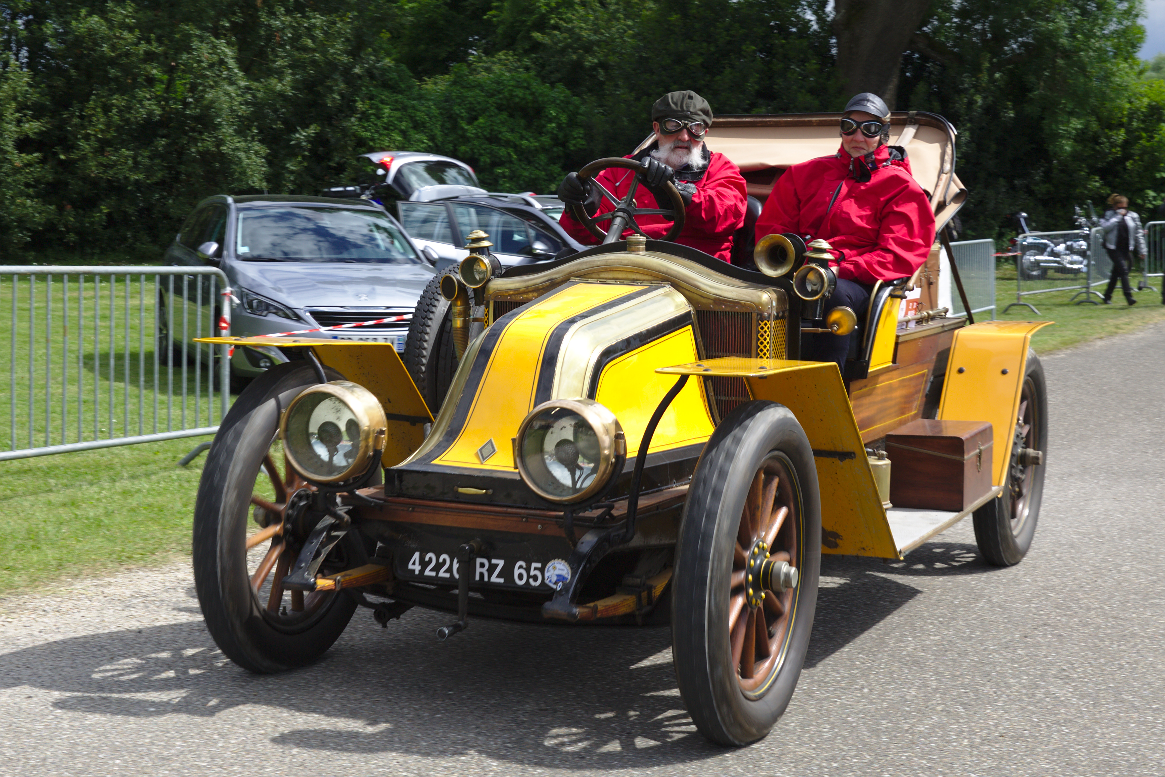 Renault